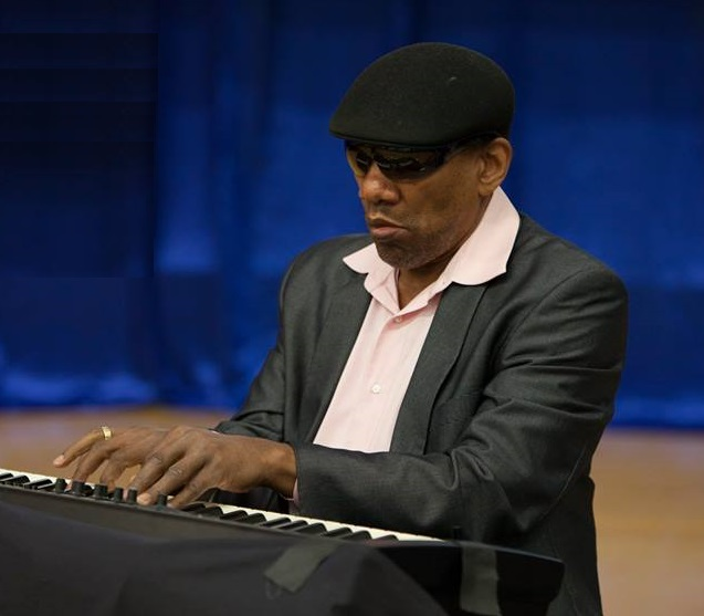 Jazz pianist Henry Butler at Rochester Community & Technical College